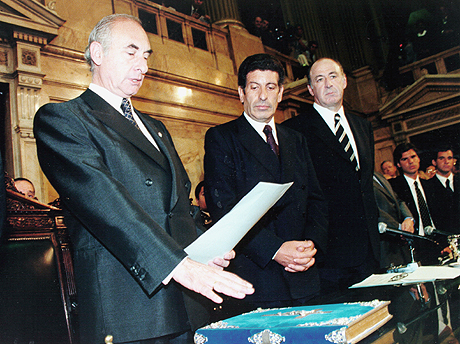 BUENOS AIRES- ASUME COMO PRESIDENTE DE LA NACION, EL DR. FERNANDO DE LA RUA. (SPYD 10-12-99)